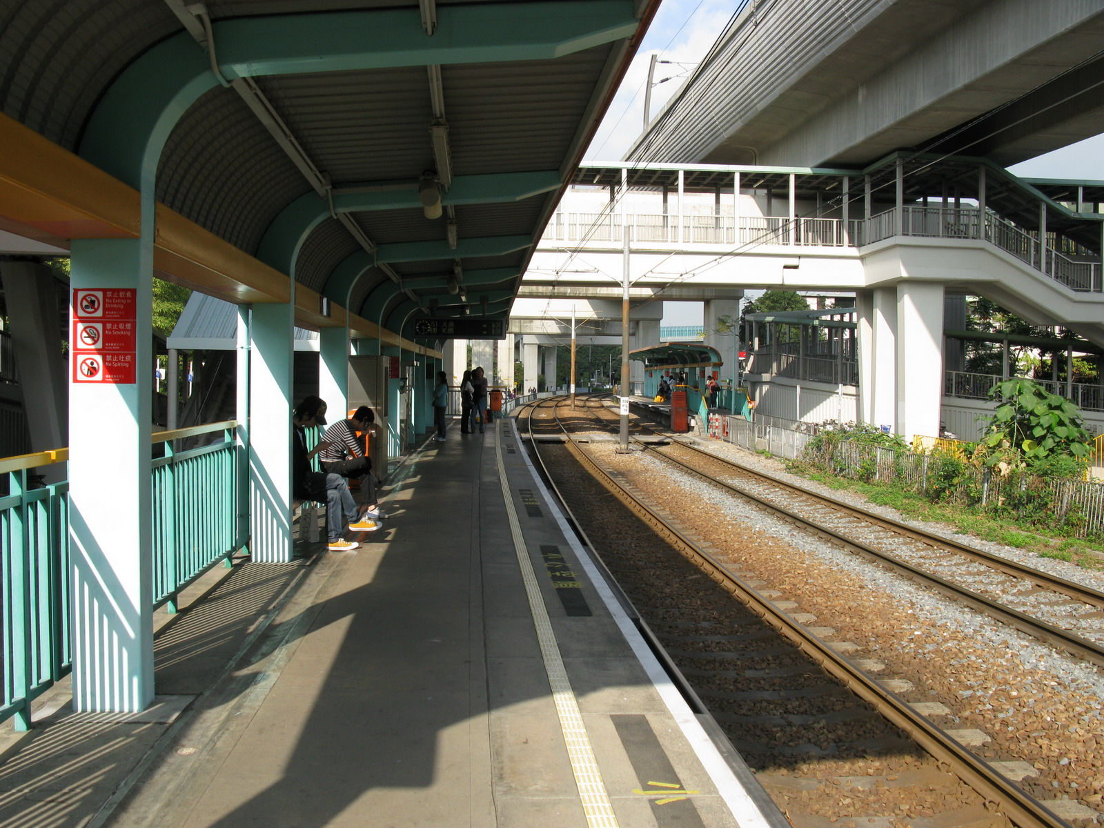 Lam Tei Stop, Light Rail中文（香港）: 輕鐵藍地站